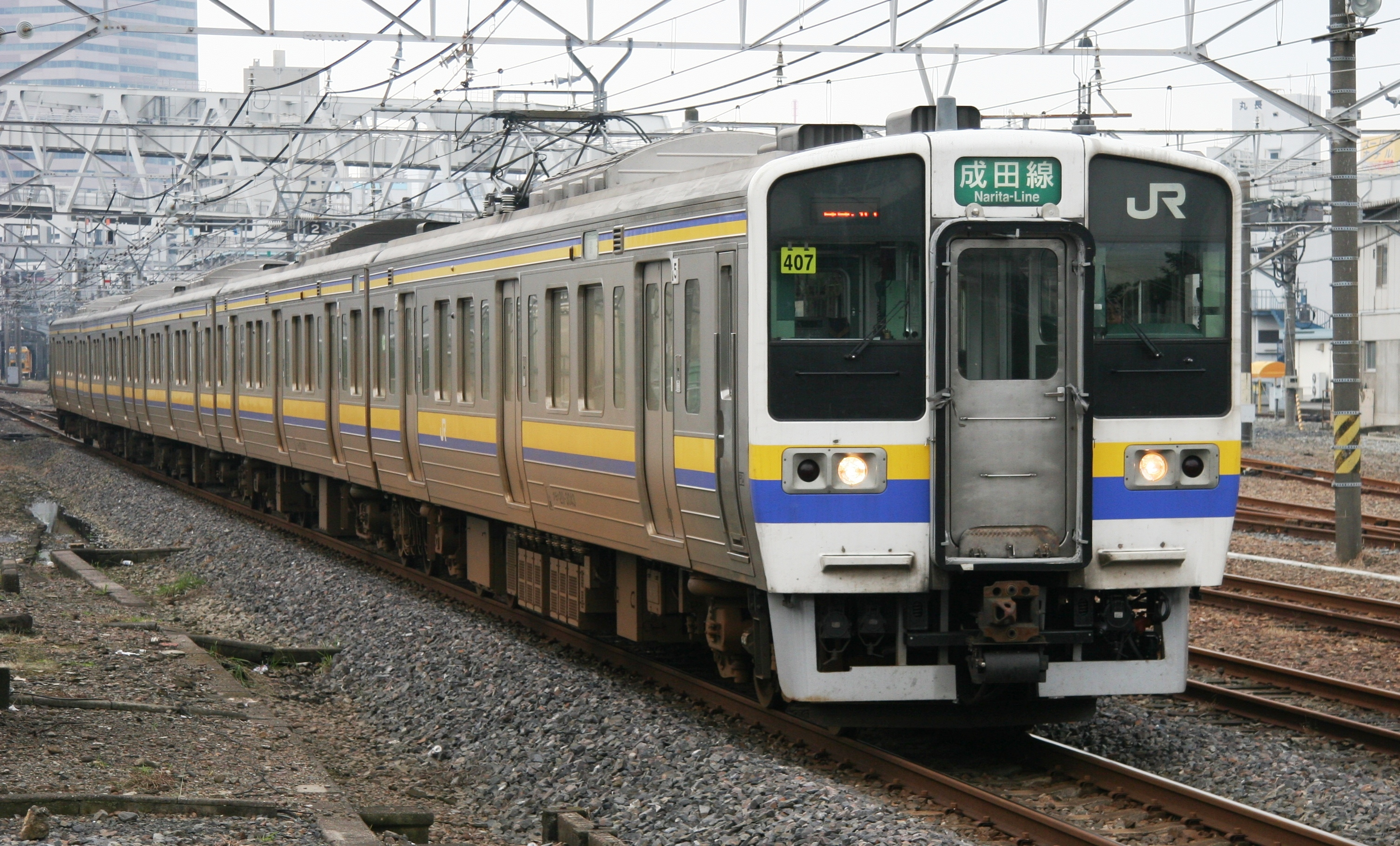 JR East 211-3000 series EMU in Chiba area livery on Narita Line local service